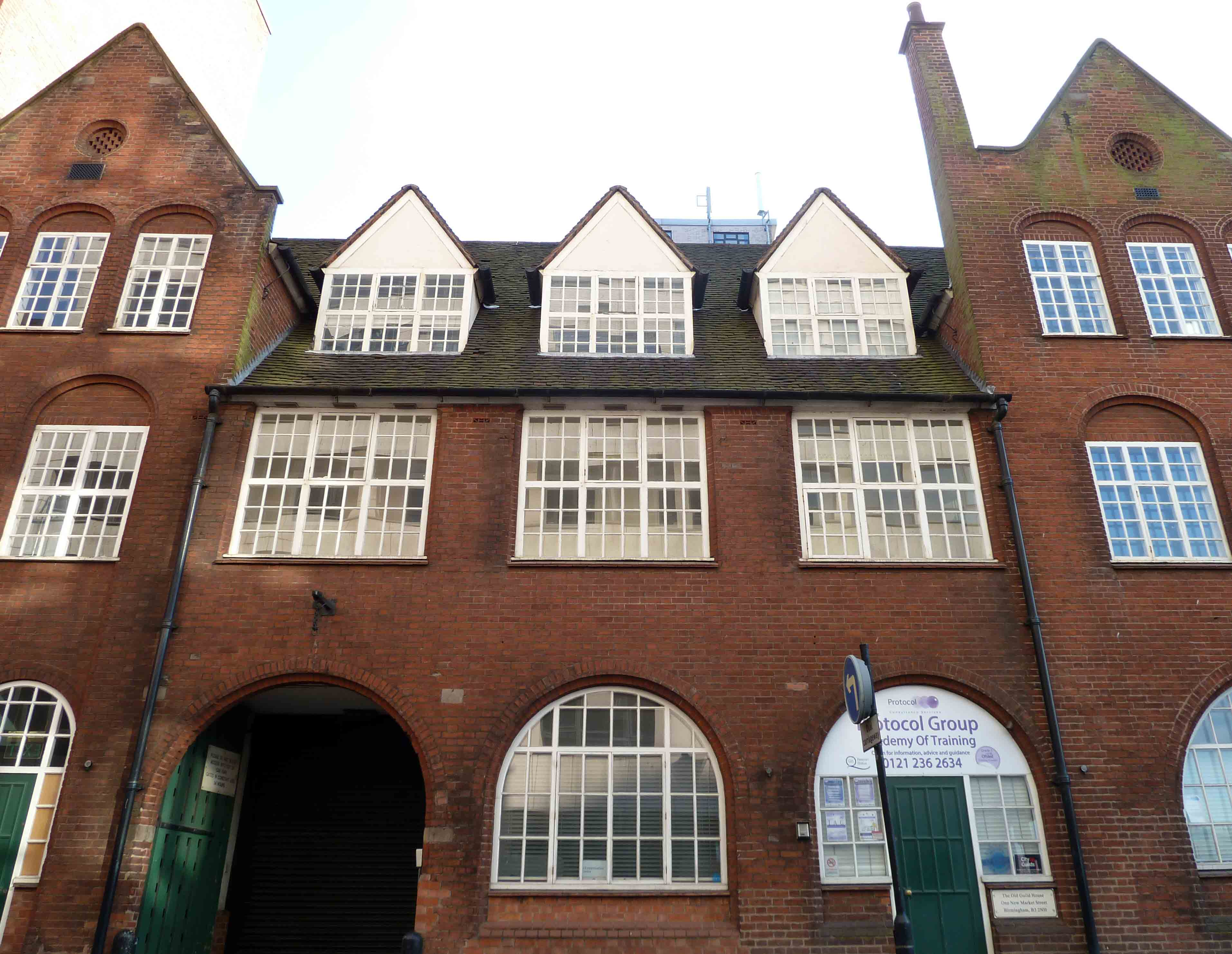 The New Market Street frontage of the Birmingham Guild of Handicraft, designed by Arts and Crafts architect Arthur Stansfield Dixon in 1898.